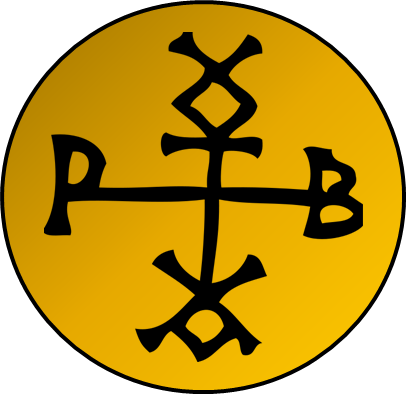 Kubrat's monogram